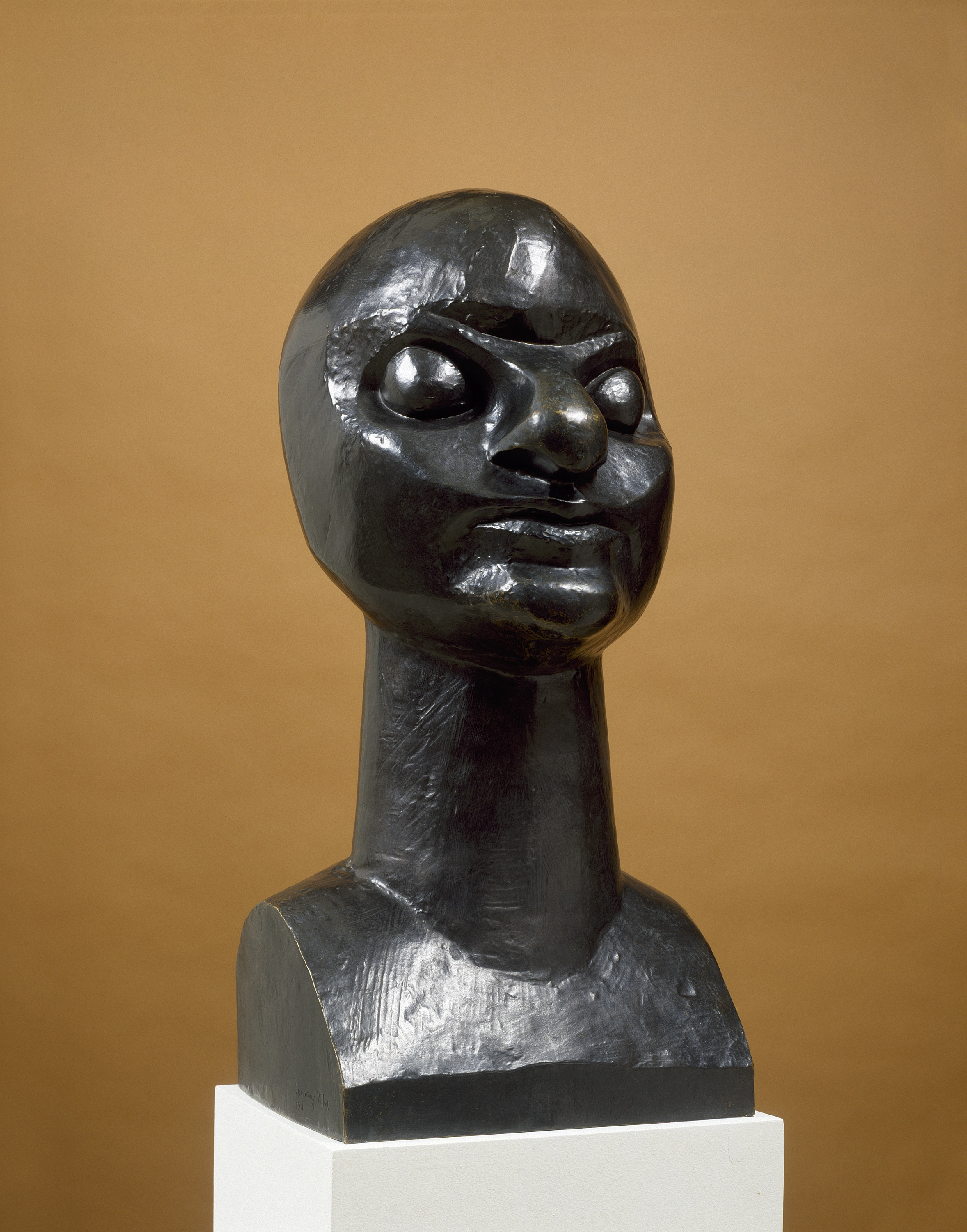 This file was provided to Wikimedia Commons by the Solomon R. Guggenheim Museum as part of a cooperation project. The Solomon R. Guggenheim Museum provides images depicting artworks which are public domain or licensed under a free license.